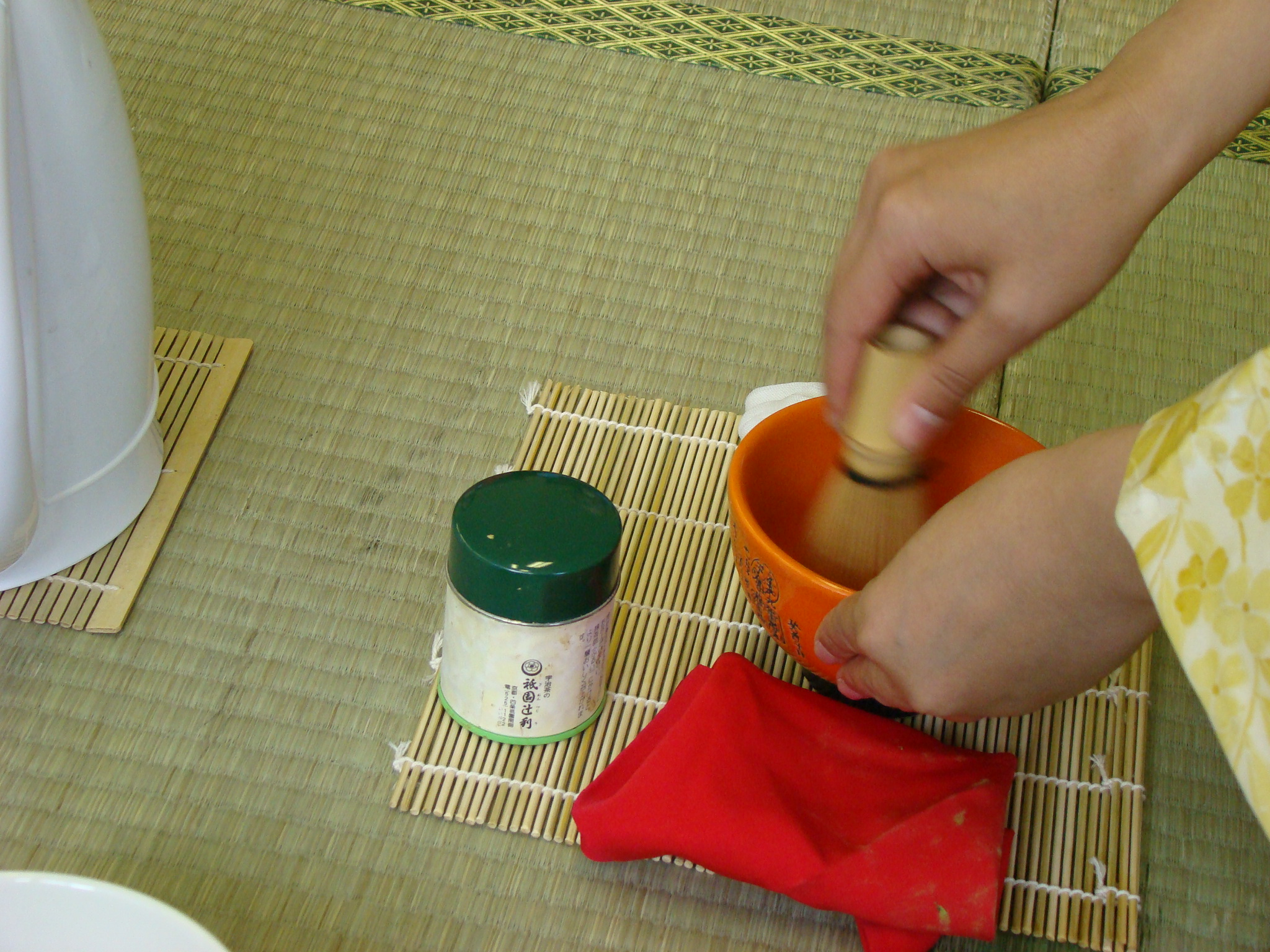 Japanese Tea Ceremony.